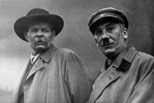 Genrikh Jagoda and Maxim Gorky (time after november 1935)